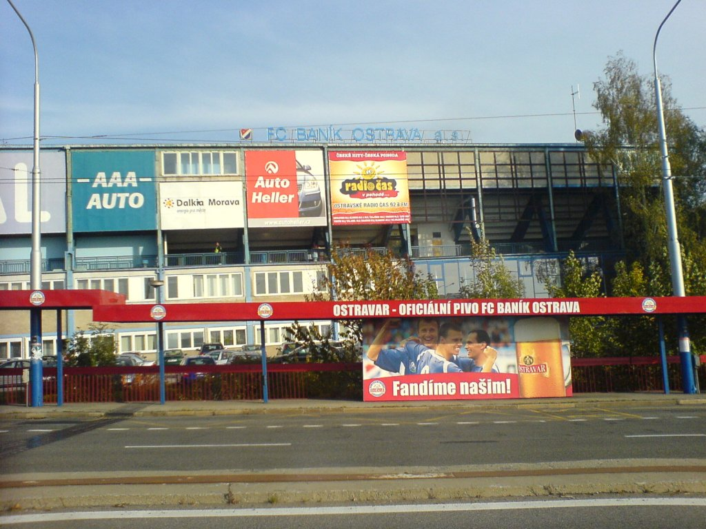 Stadium of FC Baník Ostrava.